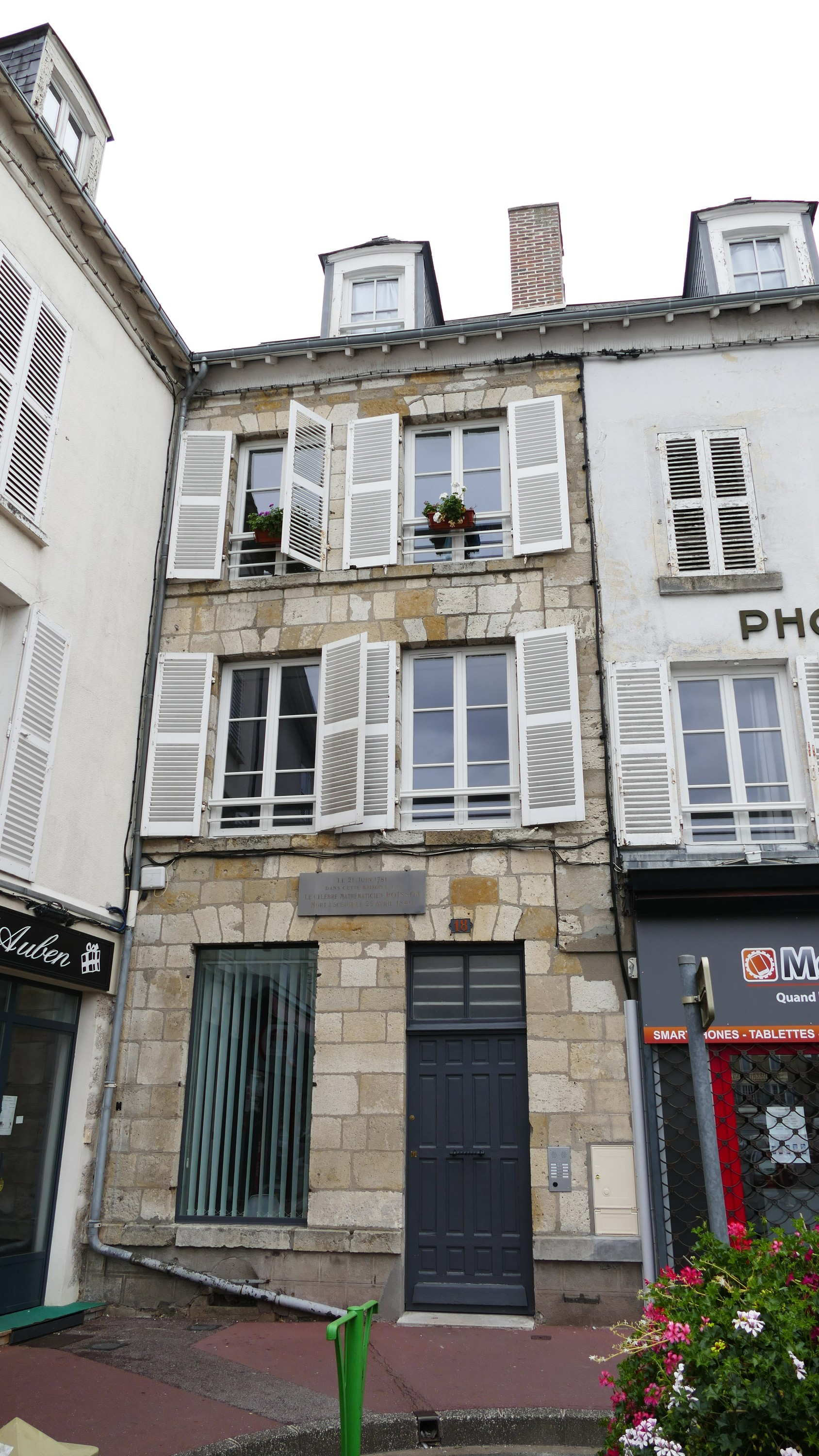 House of Siméon Denis Poisson in Pithiviers (Loiret, Centre-Val de Loire, France).